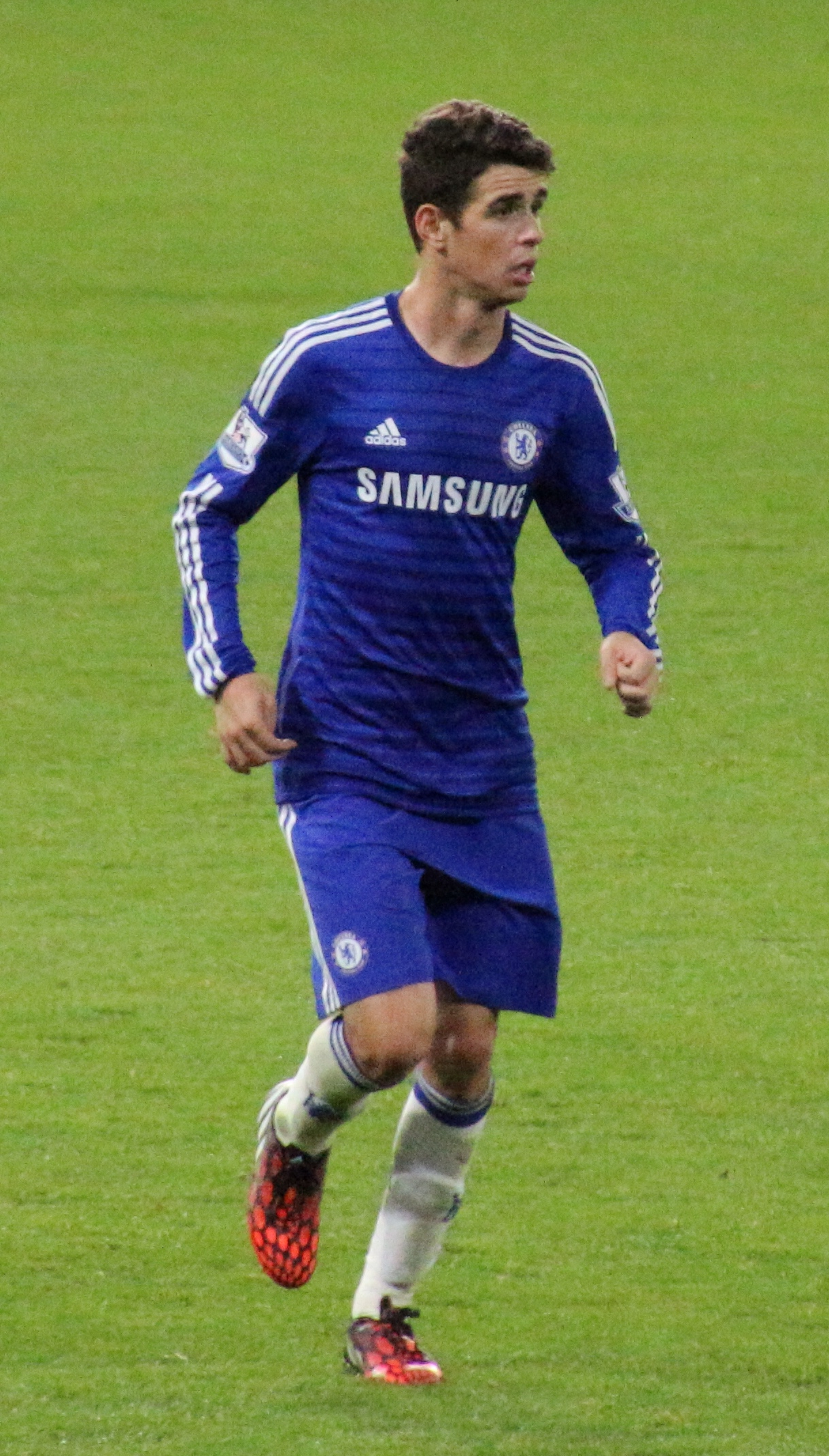 Chelsea 2 Bolton Wanderers 1 Chelsea progress to the next round of the Capital One cup